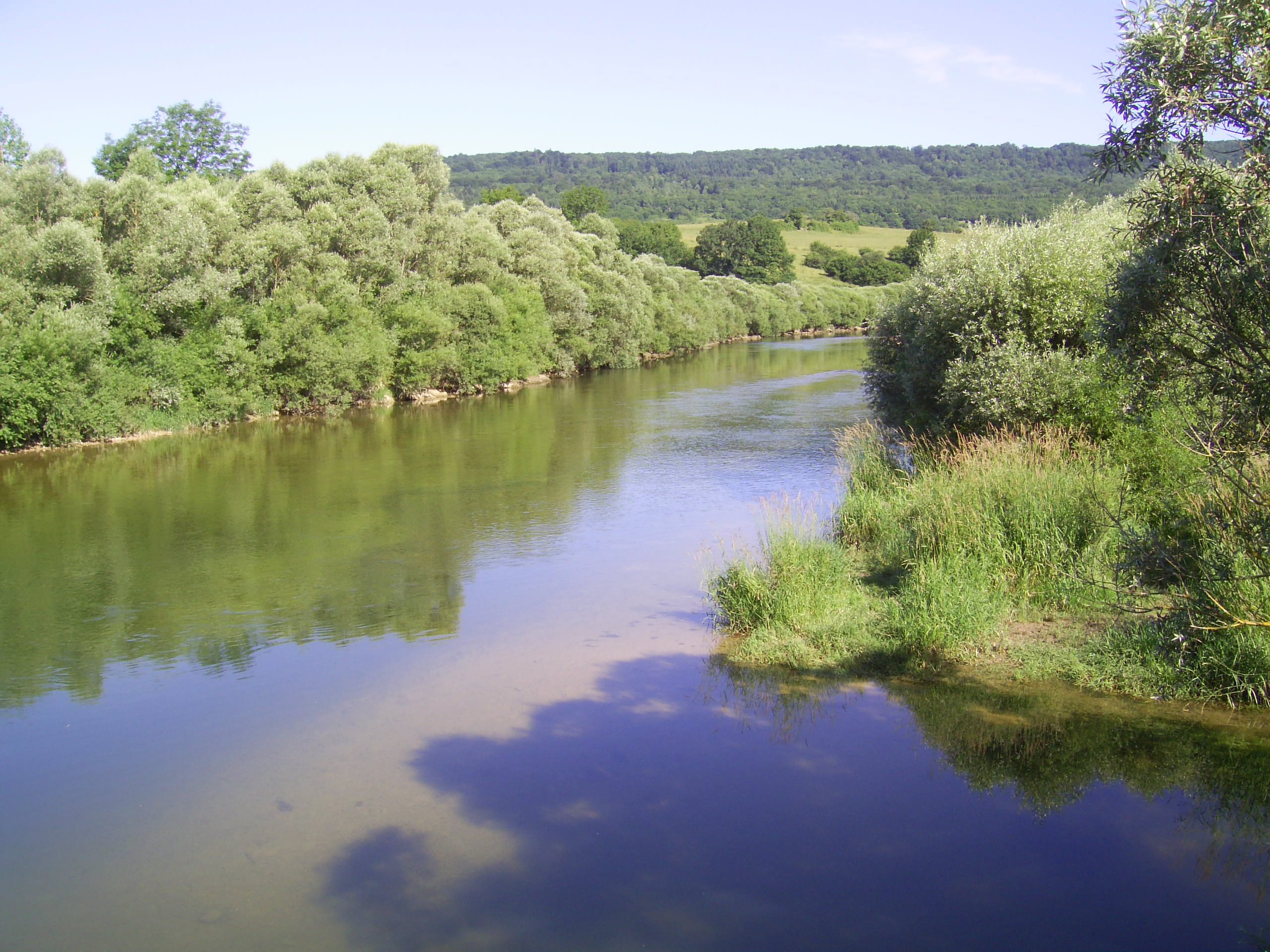 Ain river near Monnet-la-Ville, département Jura, France.